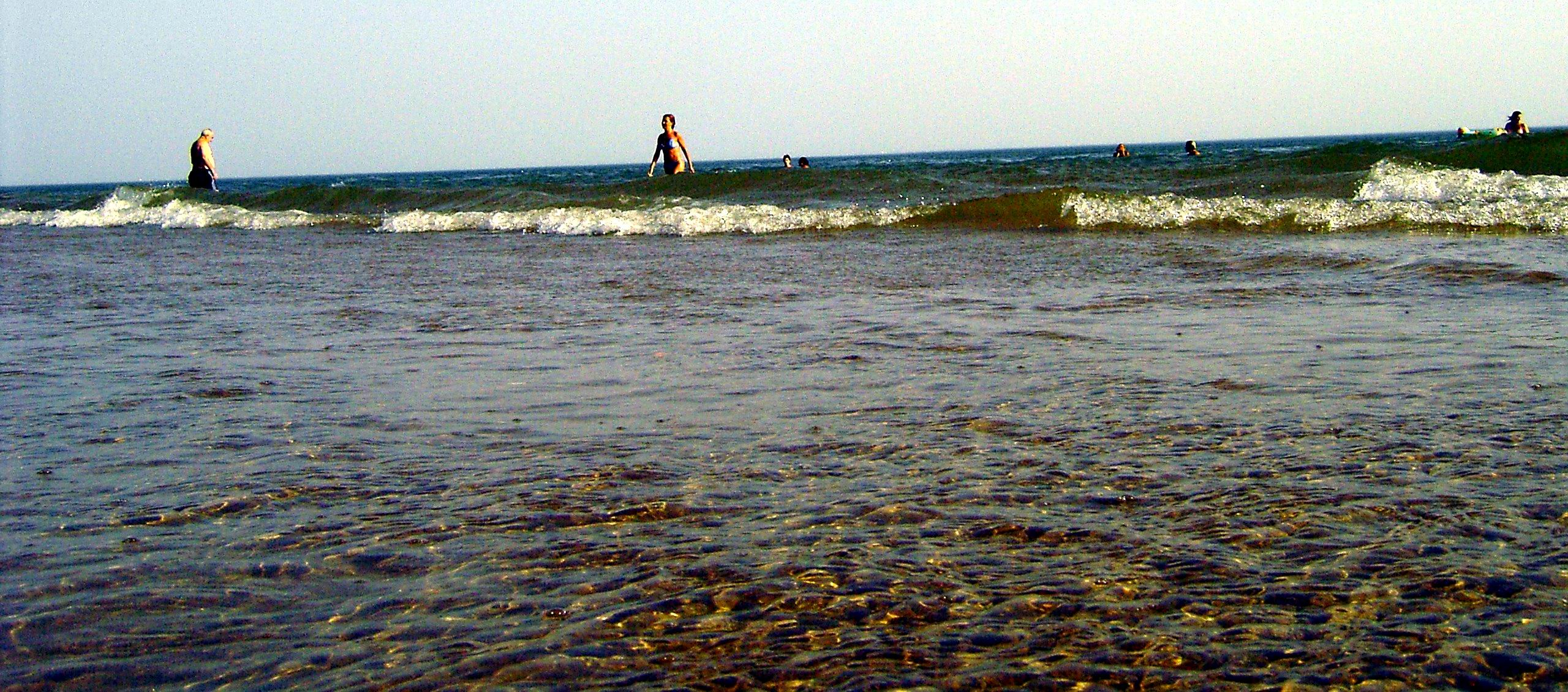 La Bota beach. Punta Umbría, Huelva (Spain)